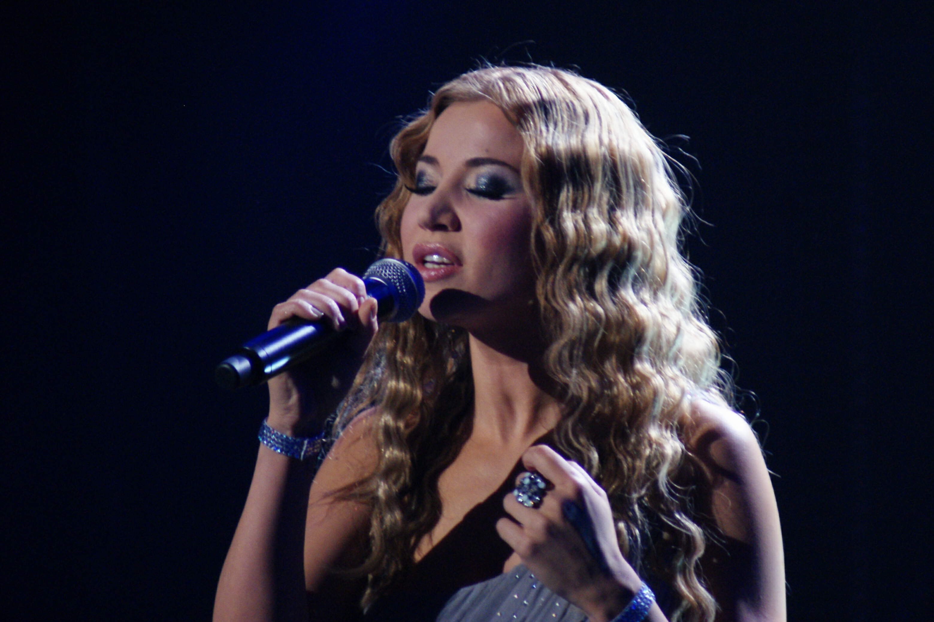 Polish singer Lidia Kopania performing "I Don't Wanna Leave" at the Piosenka dla Europy contest (2009)